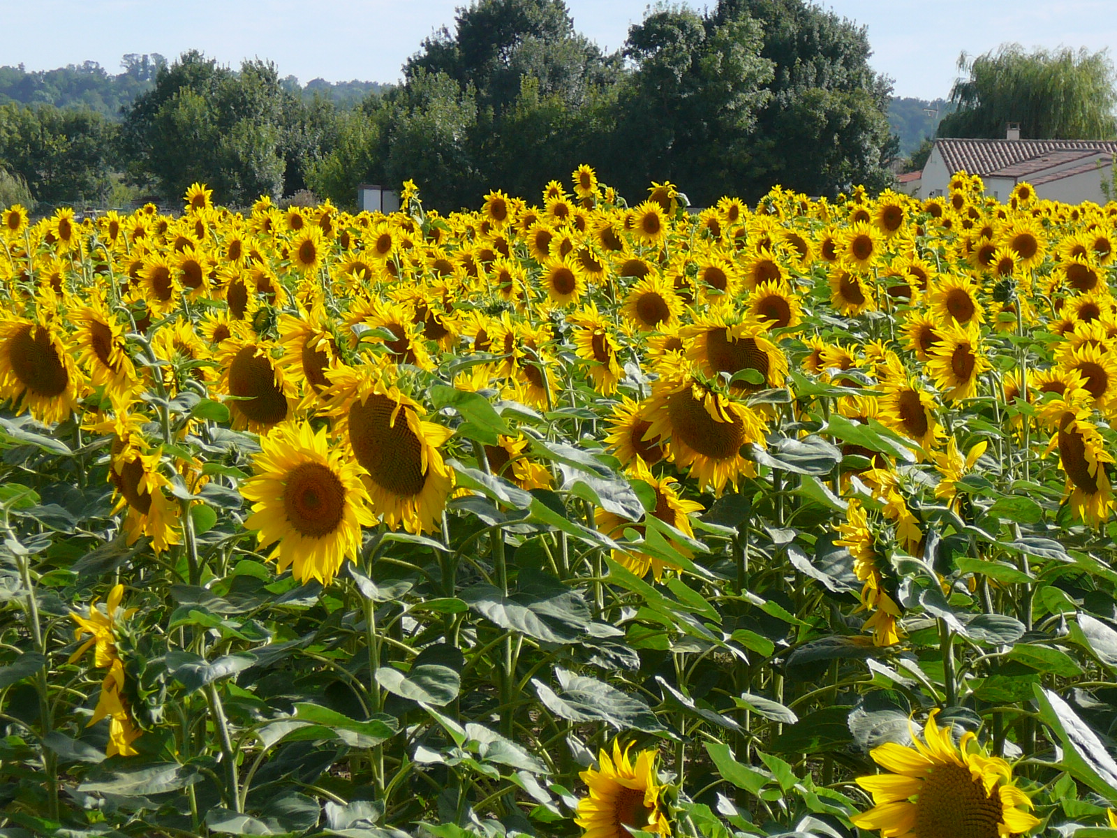 Pont-l'Abbé-d'Arnoult, sunflowers field (Helianthus) in the neighborhood. Charente-Maritime (17), Poitou-Charentes, France, Europe.